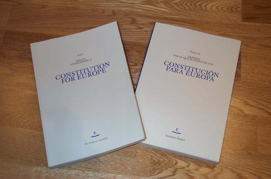 the draft Treaty establishing a Constitution for Europe. I took the photo. The languages shown are English language and Spanish language.